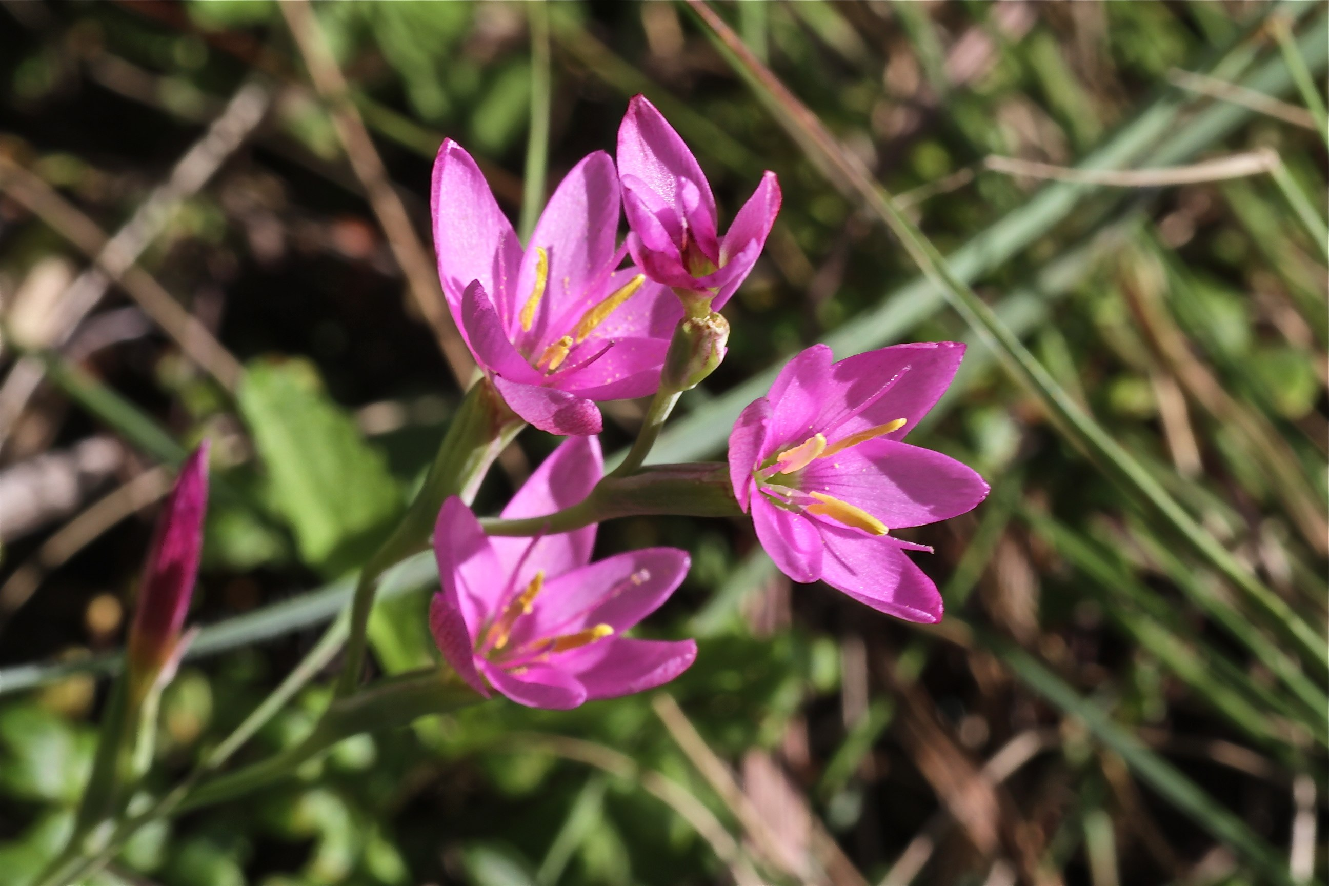 South Africa, Drakensberg, Royal Natal National Park.